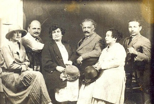 Samoylovich, Haqverdiyev, Chobanzade. Leningrad